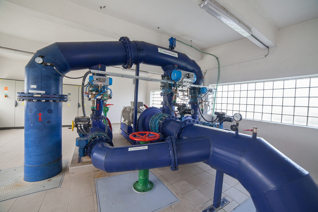 Úpravna vody Vyšní Lhoty - infrastruktura, autor: Boris Renner